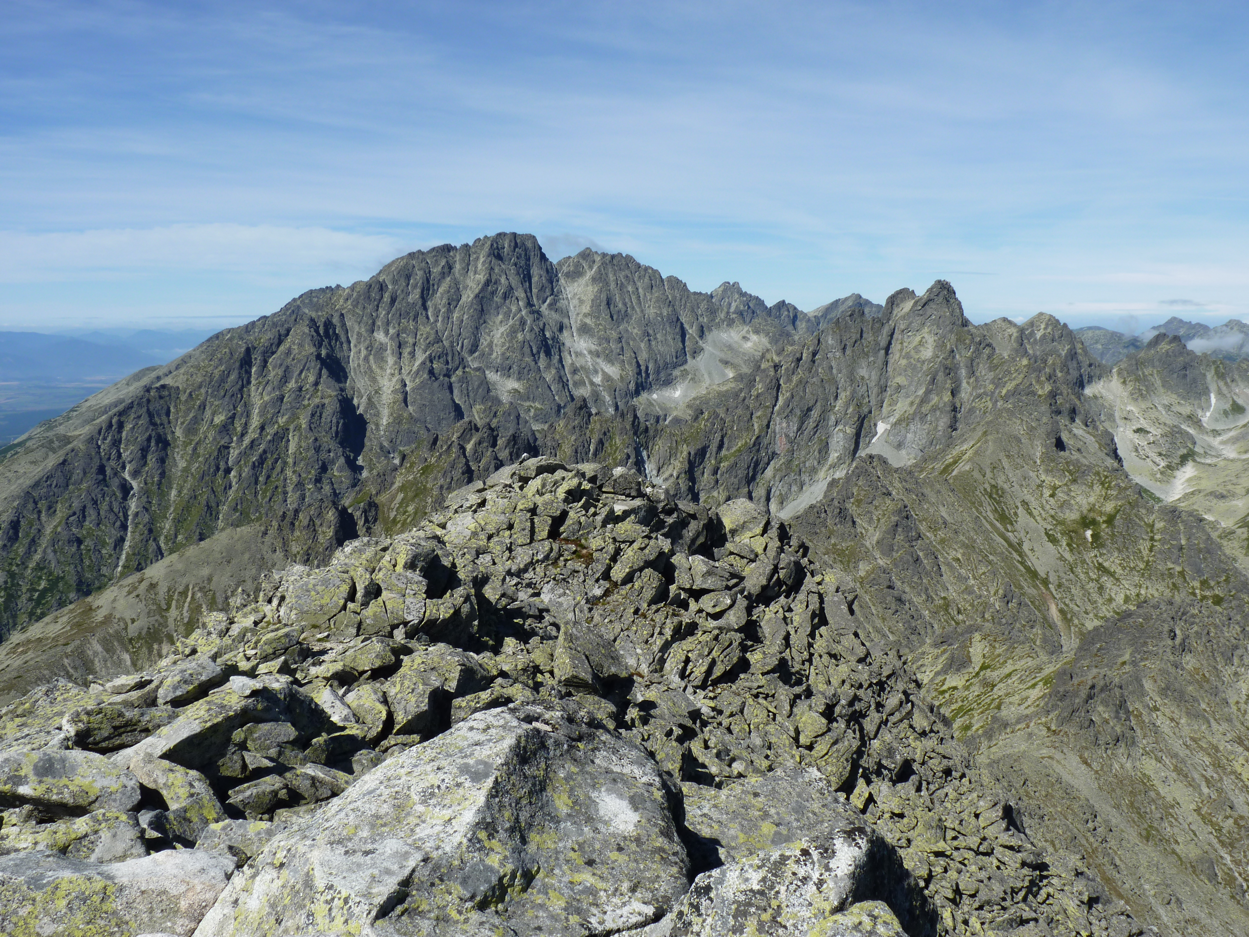 Gerlachovský štít from the top of Slavkovský štít, Tatra Mountains, Slovakia